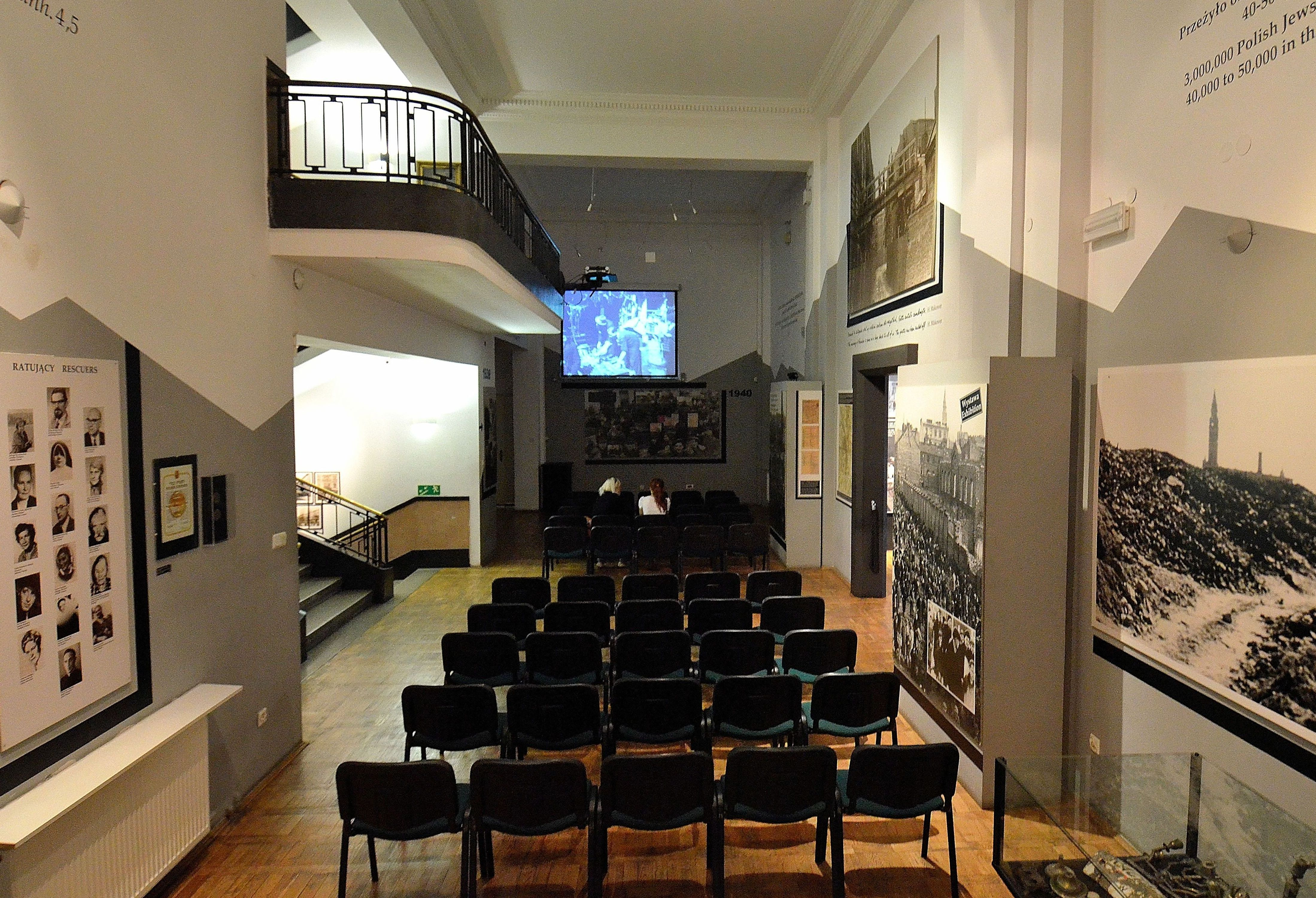 The cinema room on the first floor of the Jewish Historical Institute in Warsaw